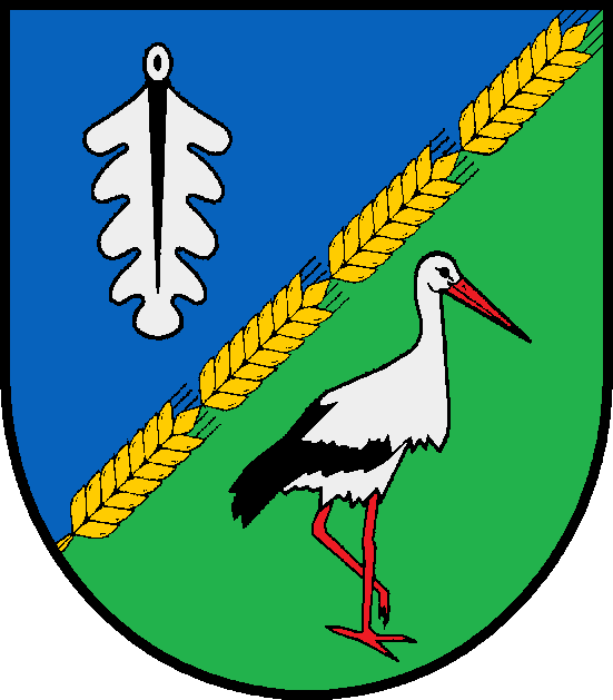 Coat of arms of the municipality Woltersdorf in Schleswig-Holstein, Germany.